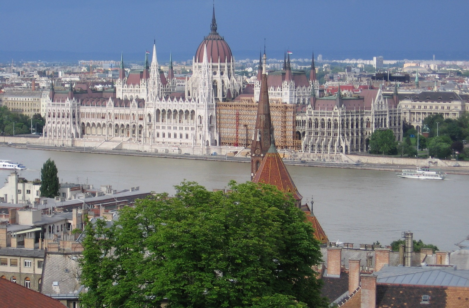 Parliamant Building in Budapest